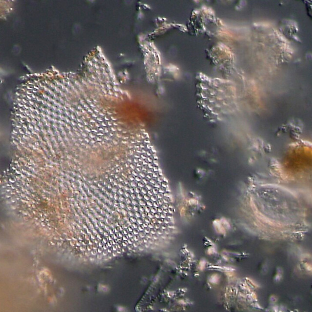 Diatomite of Japanese charcoal brazier (Shichi-rin) / Microscope:Leica DMRD (DIC)